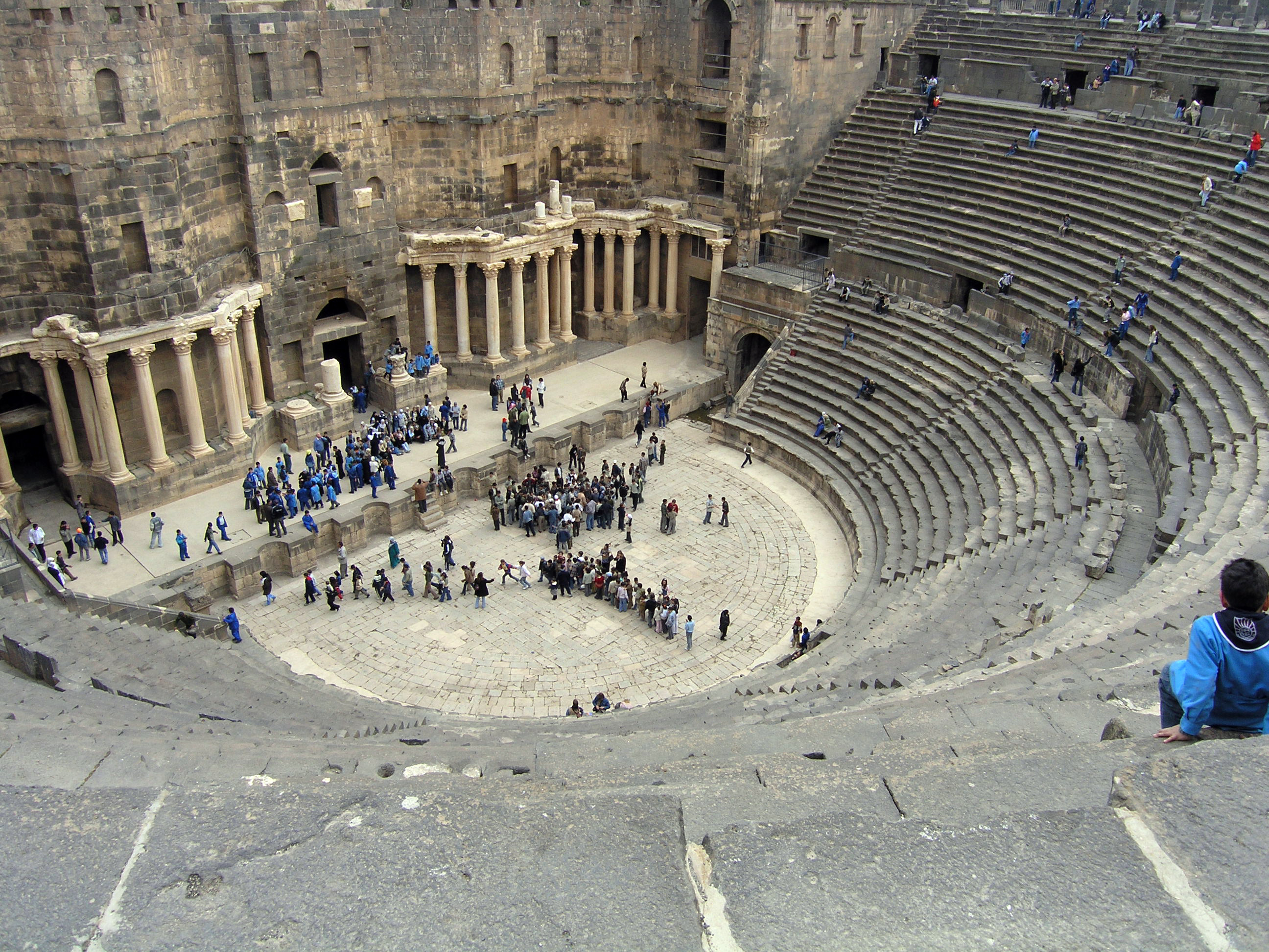 second century AD roman theatre in bosra.